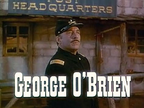 George O'Brien in She Wore a Yellow Ribbon (1949) - trailer (cropped screenshot)